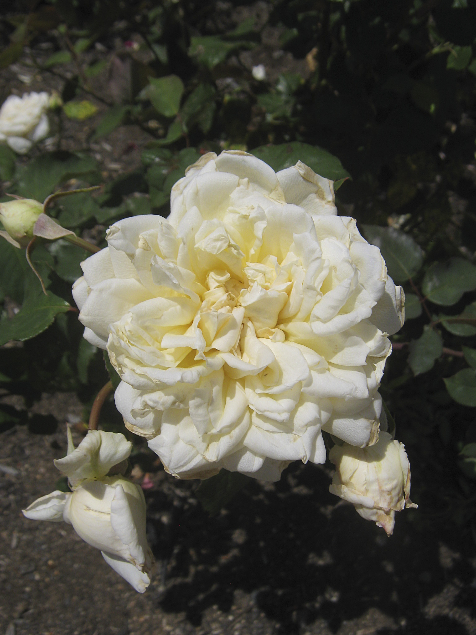 Rose 'Kootenay', Hybrid Tea by Dickson 1917; photographed in the Nieuwesteeg Heritage Rose Garden, Maddingley Park, Victoria